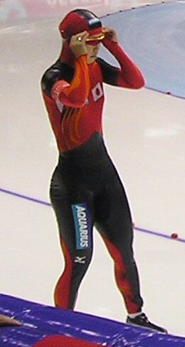 Sayuri Osuga (JPN) at a World Cup in Thialf (Heerenveen, The Netherlands)